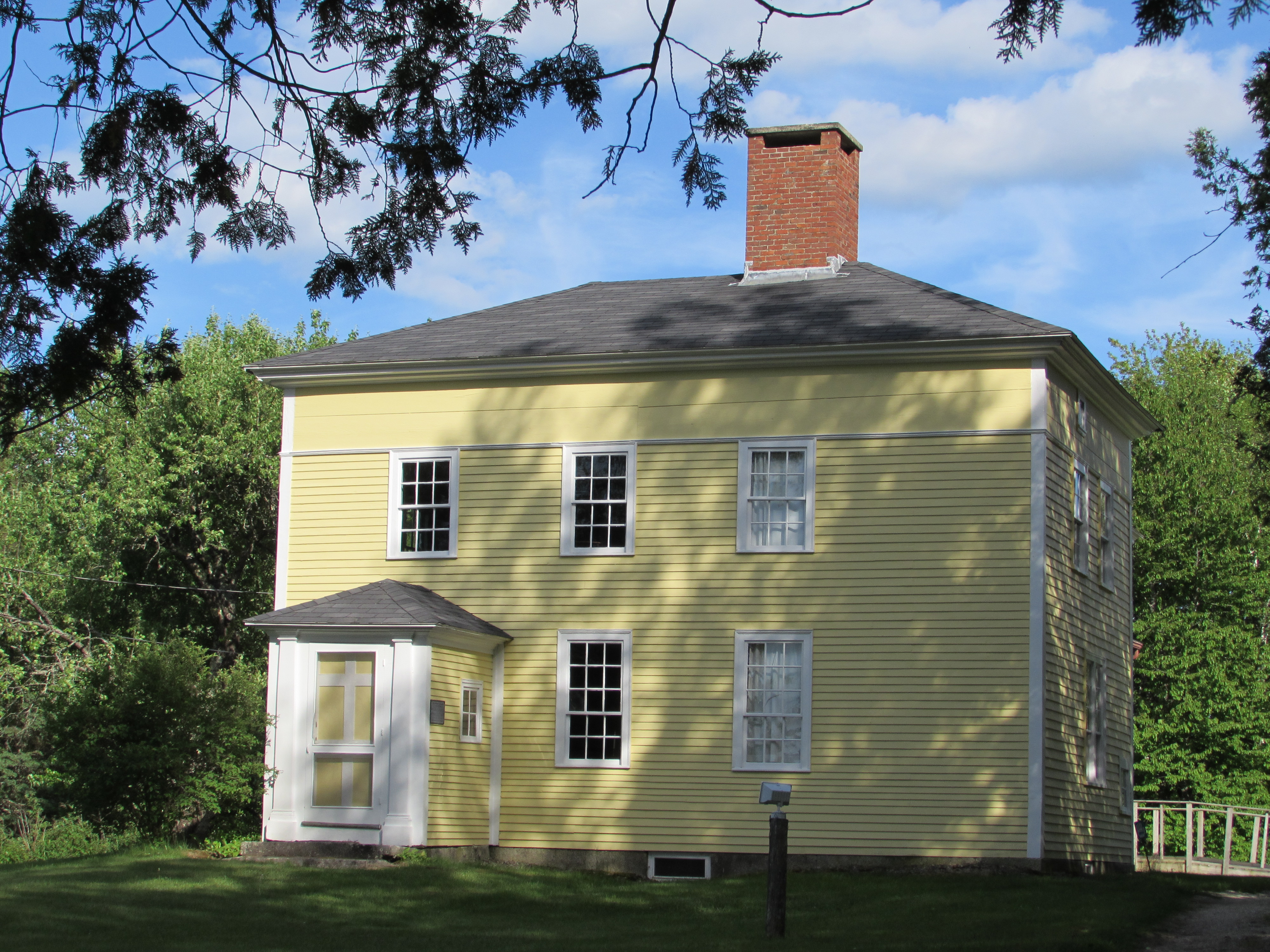 Front of the Jonathan Fisher House and Memorial, 44 Mines Road, Blue Hill, Maine.